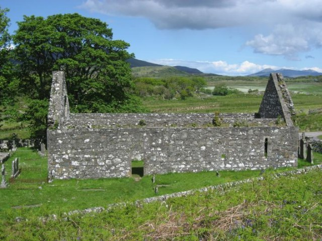 Derelict church at Kildalton The Paps of Jura are visible in the far distance above the east end of the church